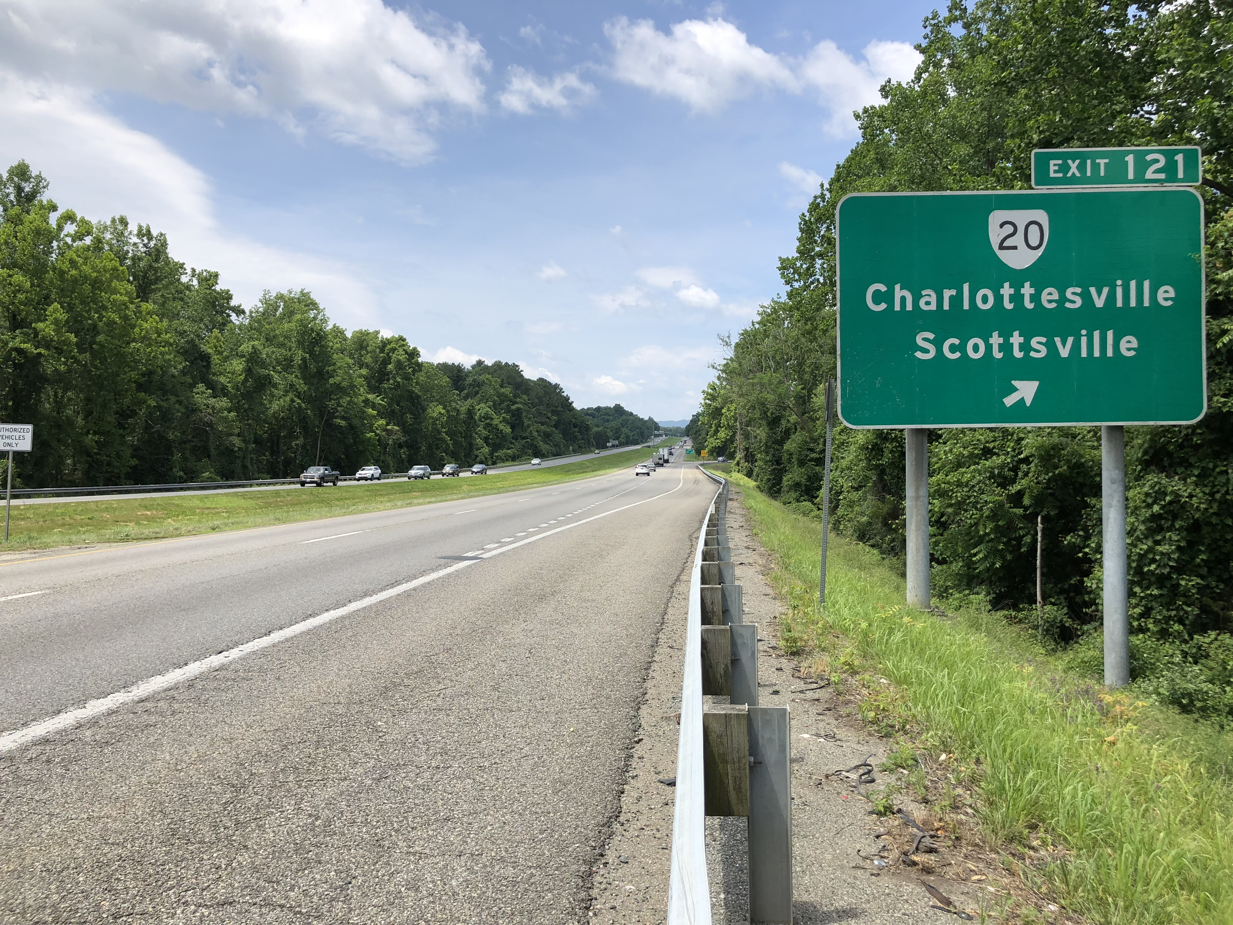 View west along Interstate 64 at Exit 121 (Virginia State Route 20, Charlottesville, Scottsville) in Charlottesville, Virginia